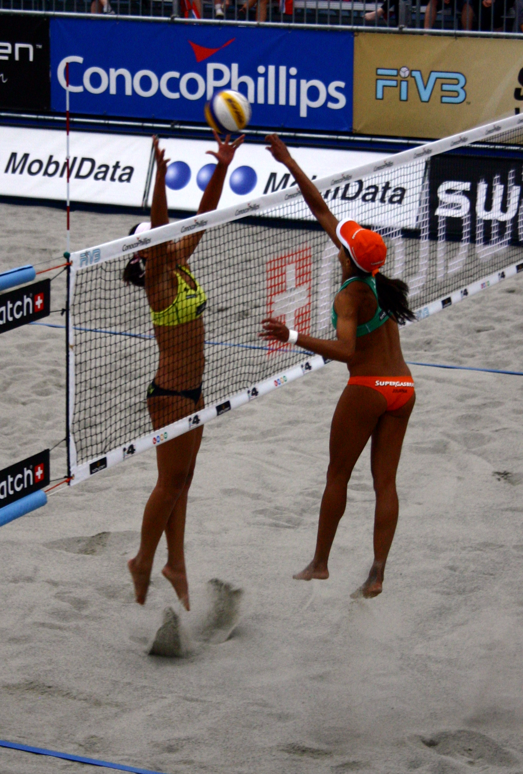 Hitting the ball over the net during an FIVB World Tour in Stavanger